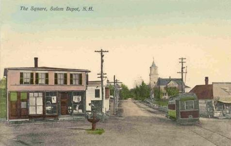 The Square, Salem Depot; from a 1908 postcard.